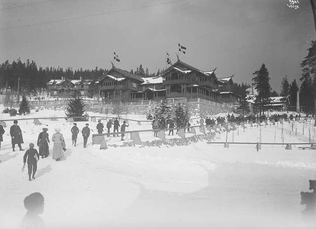 Holmenkollen Hotel in Oslo, Norway